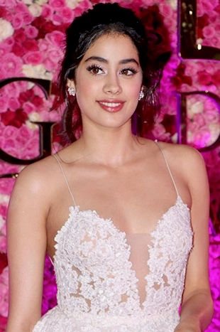 Janhvi Kapoor graces Lux Golden Rose Awards 2018